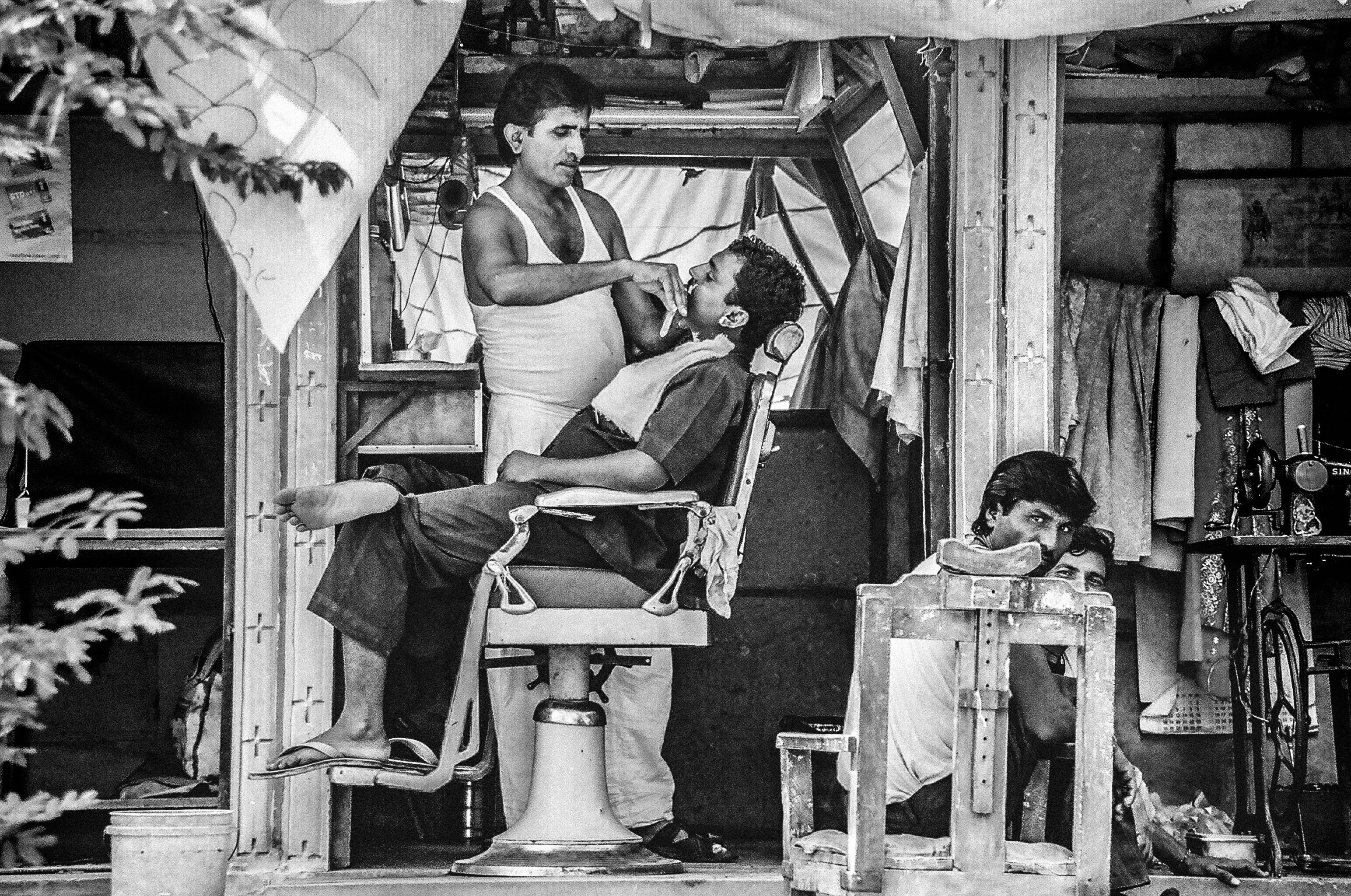 Adam Sherez 2017-05-15